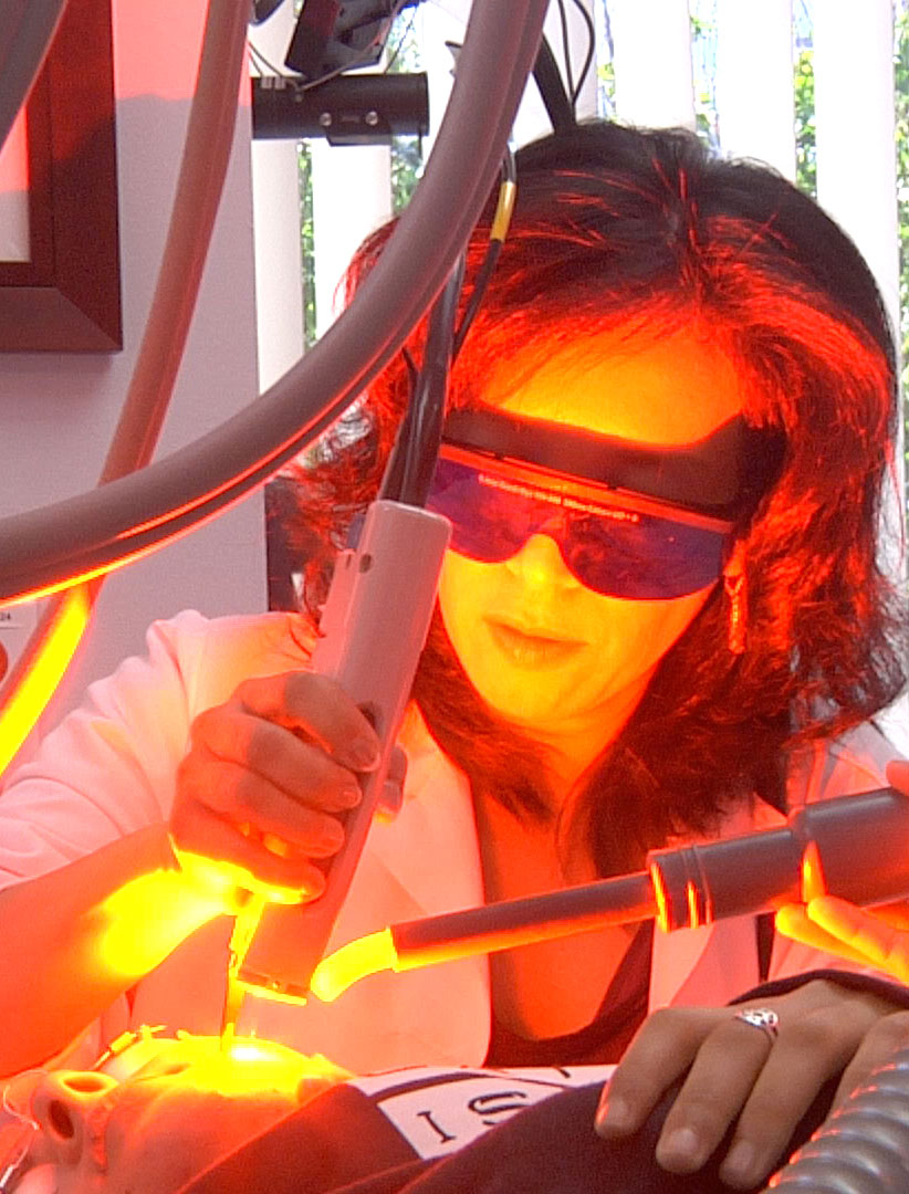 Laser treatment for rosacea using V-beam laser performed by Alice S. Pien, MD, Medical Director for AMA Skincare